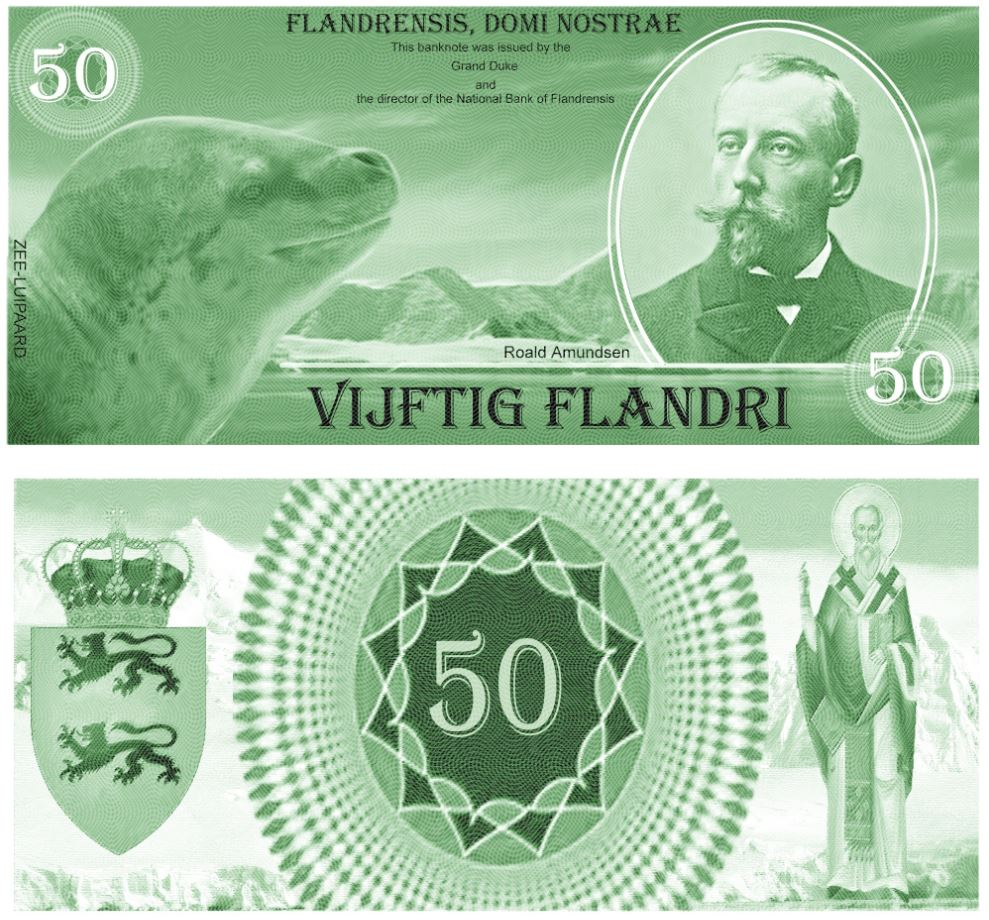 Bill of 20 Flandri of the micronation Grand Duchy of Flandrensis